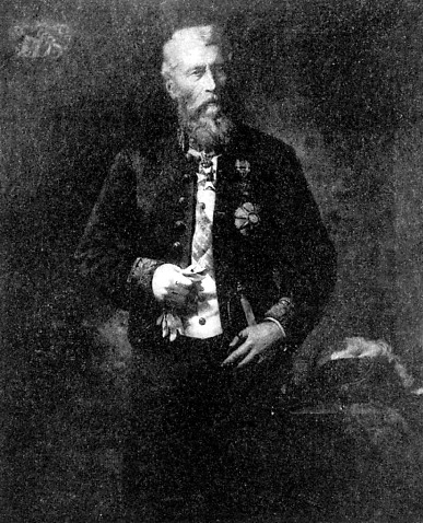 Léon François Marie Ghislain van Ockerhout (1829-1919)